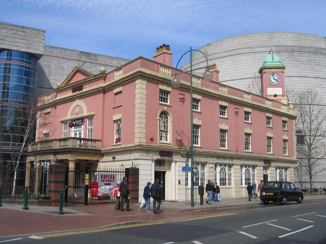 The Crown. The Crown in Broad Street was bought by a Mr William Butler. He set up his own brewery at the back using the copious supply of water from a well below. This grew to become the Mitchells & Butler (M&B) brewing empire which subsequently moved to Cape Hill 195191, now sadly being demolished.